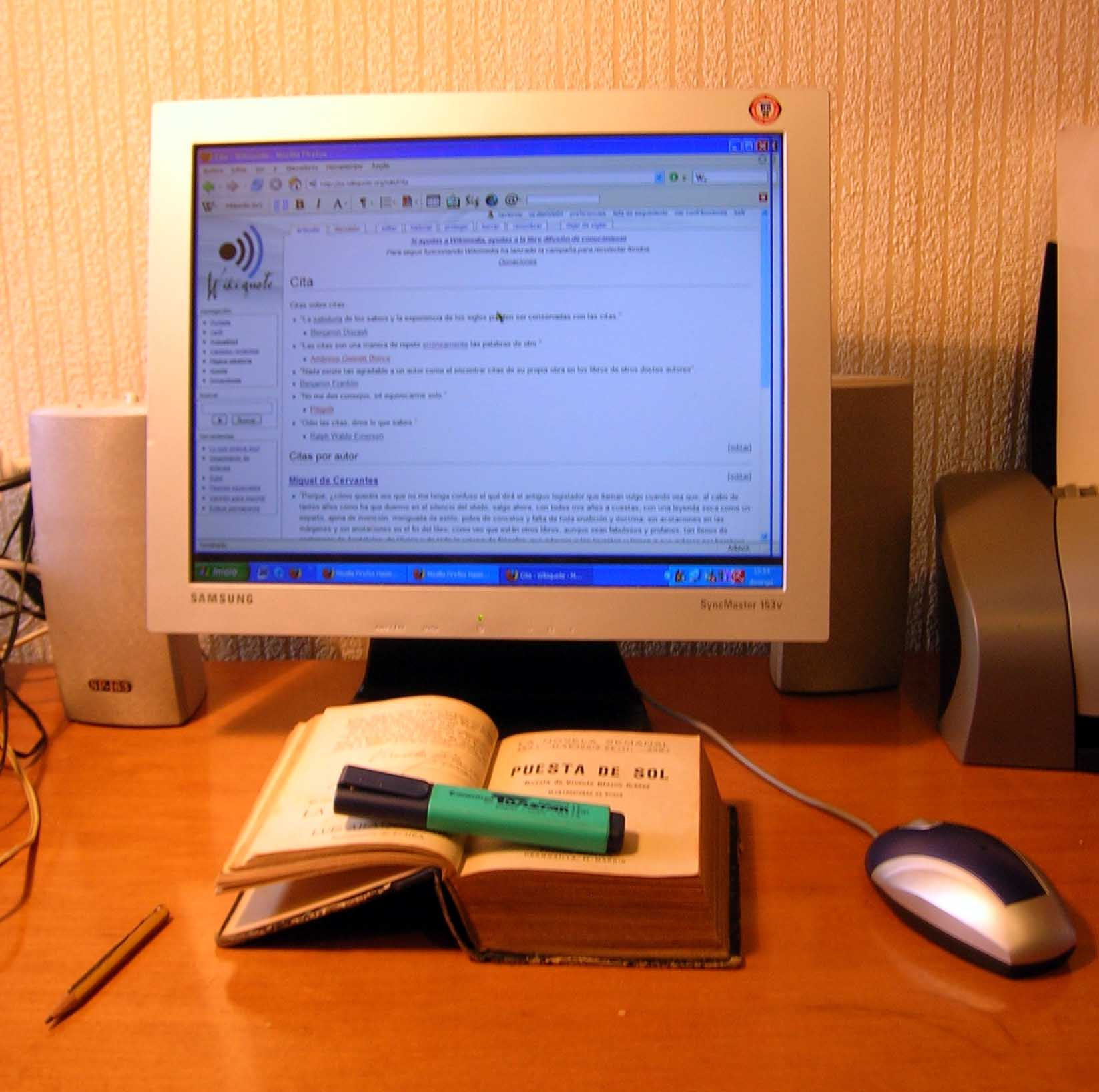 Volume binding issues from La novela semanal magazine of 1921-1923, open at the beginning of Puesta de Sol, tale by Vicente Blasco Ibáñez (under public domain already). Mouse, speakers and Samsung screen showing Wikiquote Cita page (as it was on 18 of December, 2005) in a Mozilla Firefox browser running under Windows OS. Some of the logos are protected by other forms of copyright, but here can only be viewed on low resolution and not as the central motive.